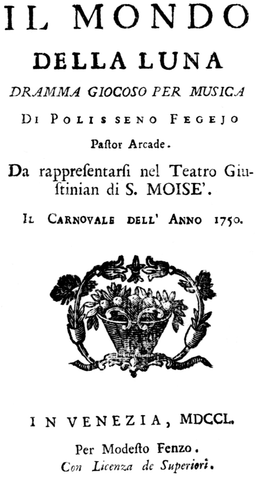 Baldassare Galuppi - Il mondo della luna - title page of the libretto - Venice 1750